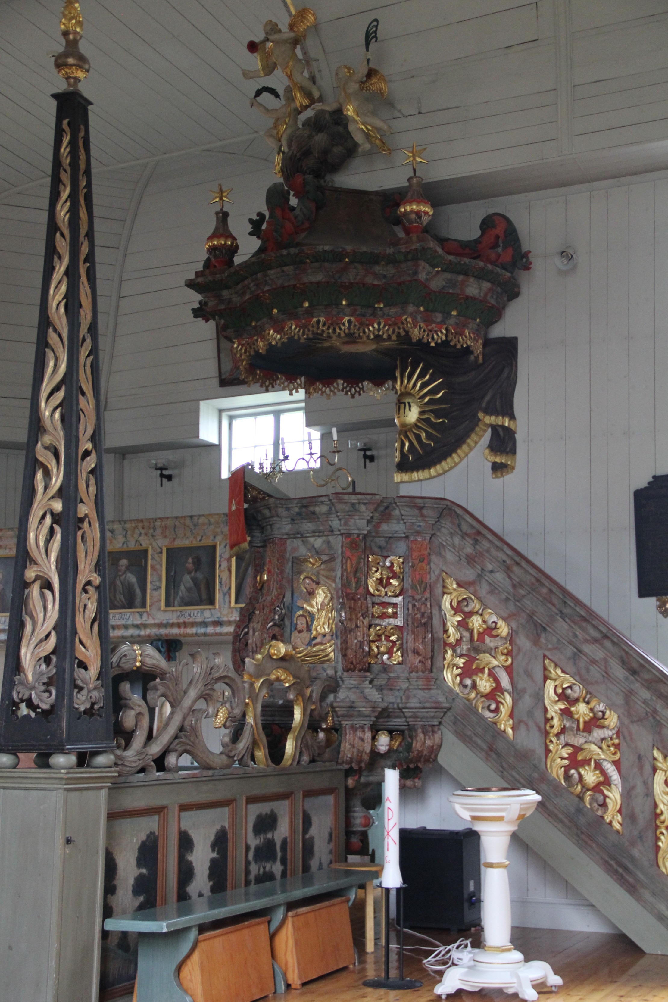 Övertorneå church, Övertorneå, Sweden. - Pulpit with abat-voix.